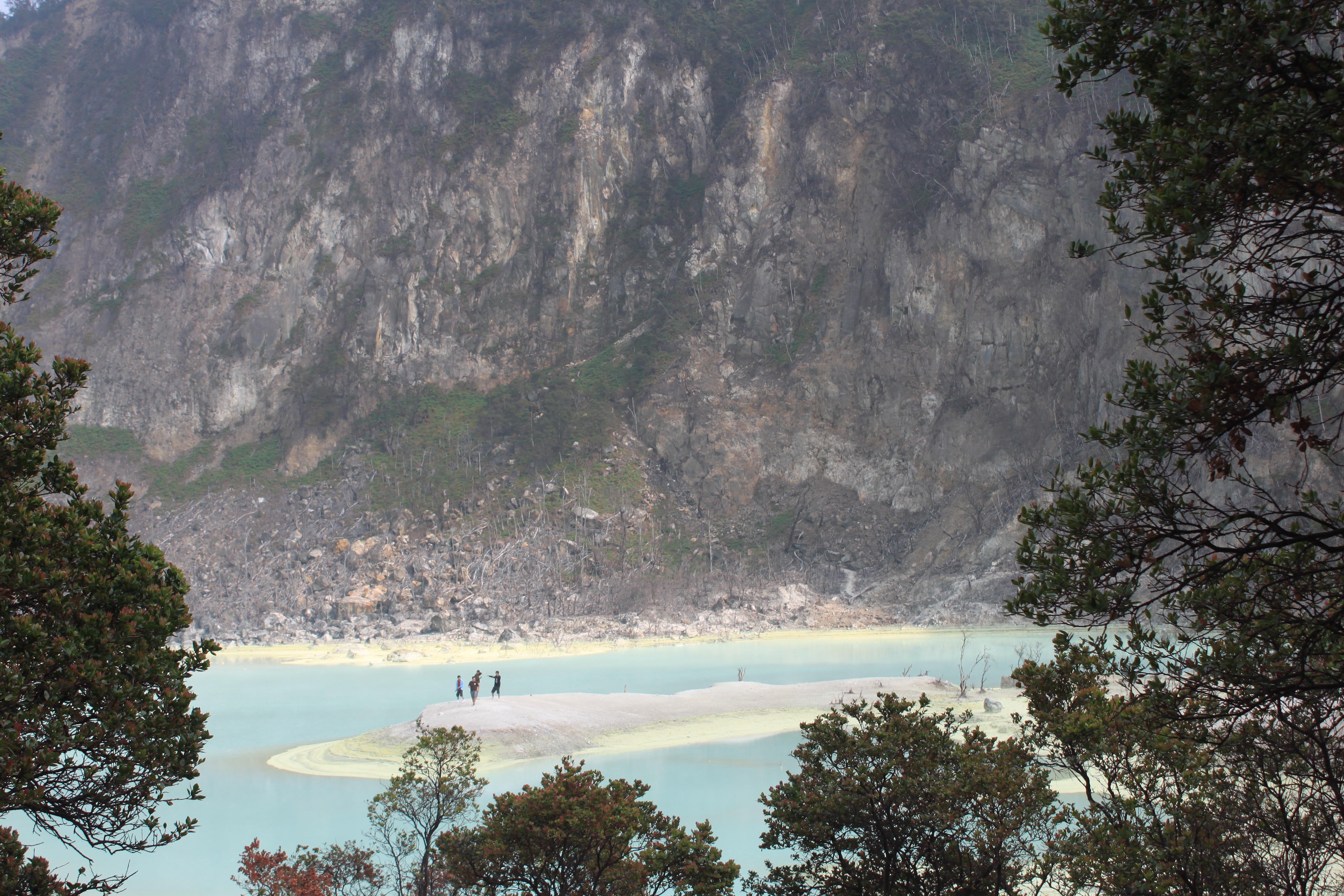 View of Kawah Putih in Bandung, West Java, Indonesia.